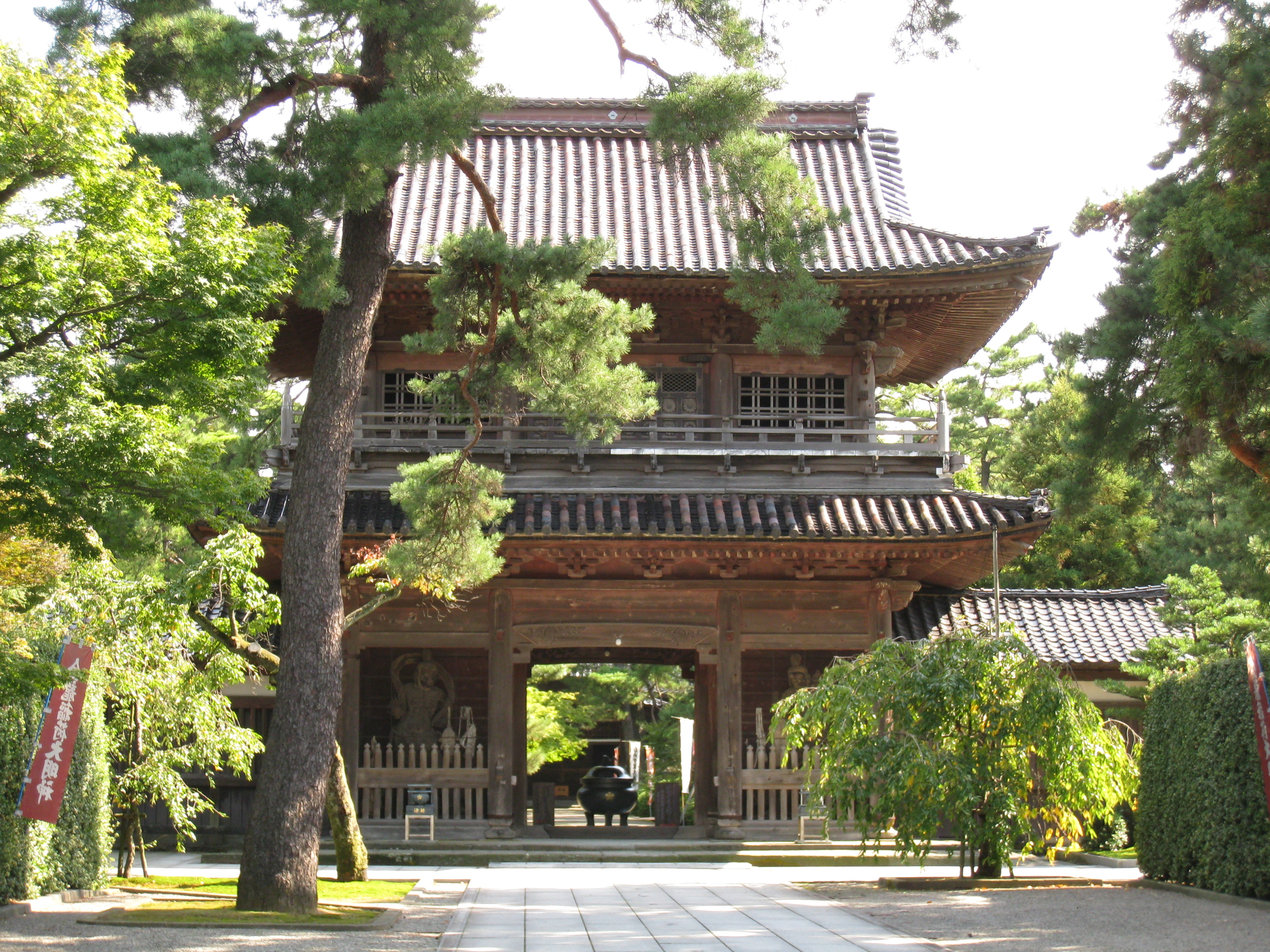 Tentokuin (天徳院), located at Kodatsuno, Kanazawa, Ishikawa, Japan